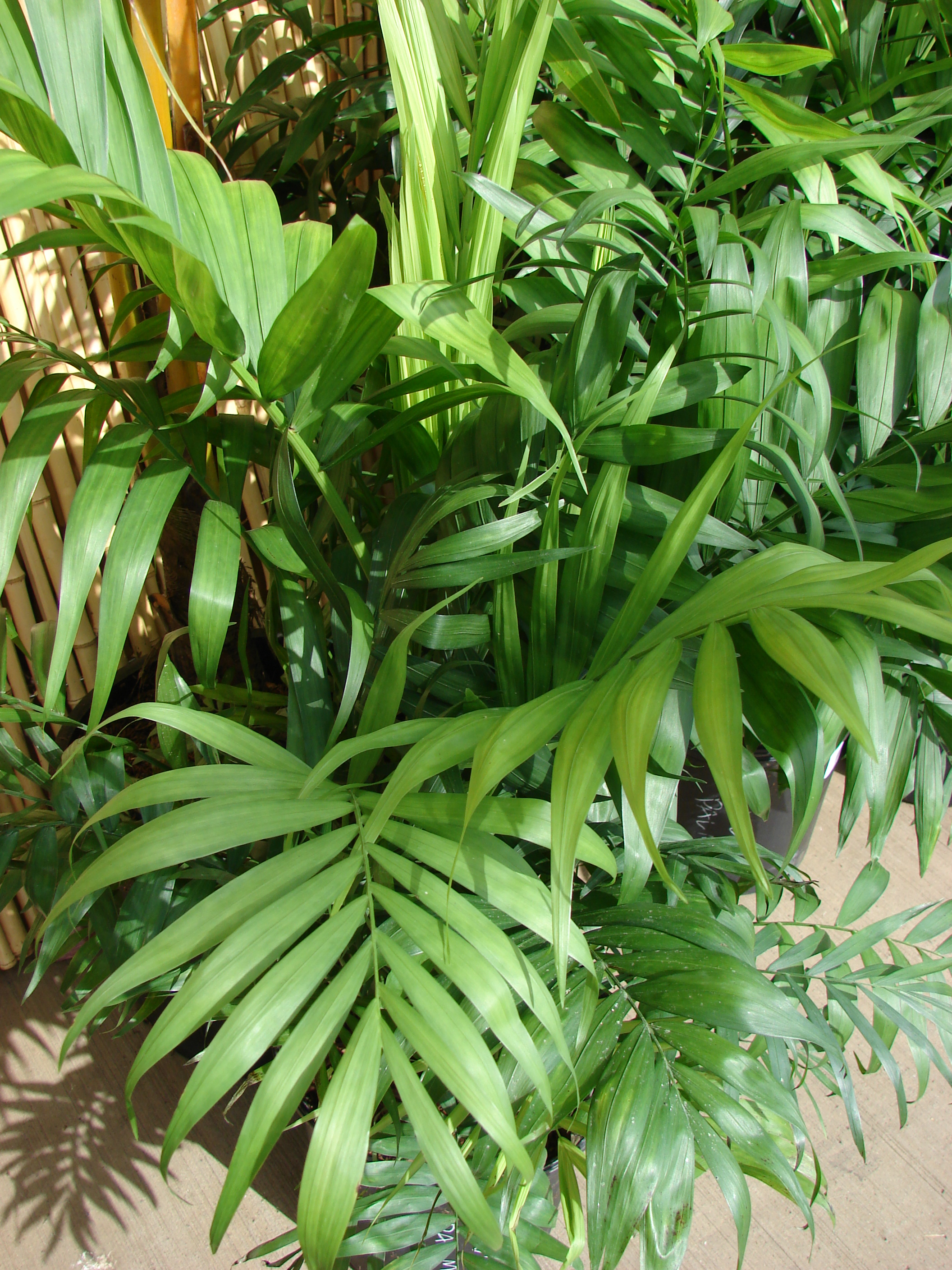 Chamaedorea elegans (Bella habit). Location: Maui, Home Depot Nursery Kahului